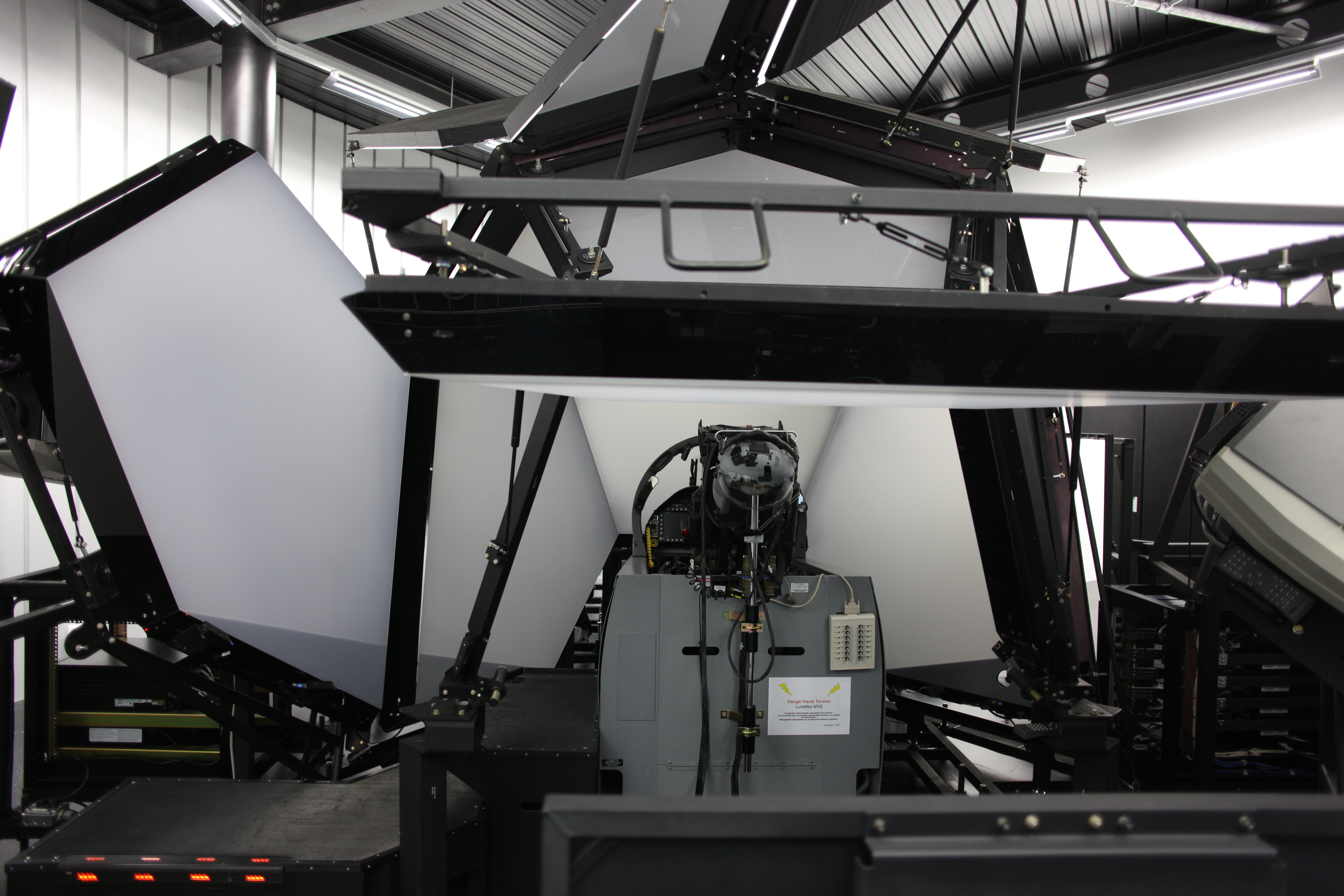 FLight simulator demonstrating at Payerne Air base open day.